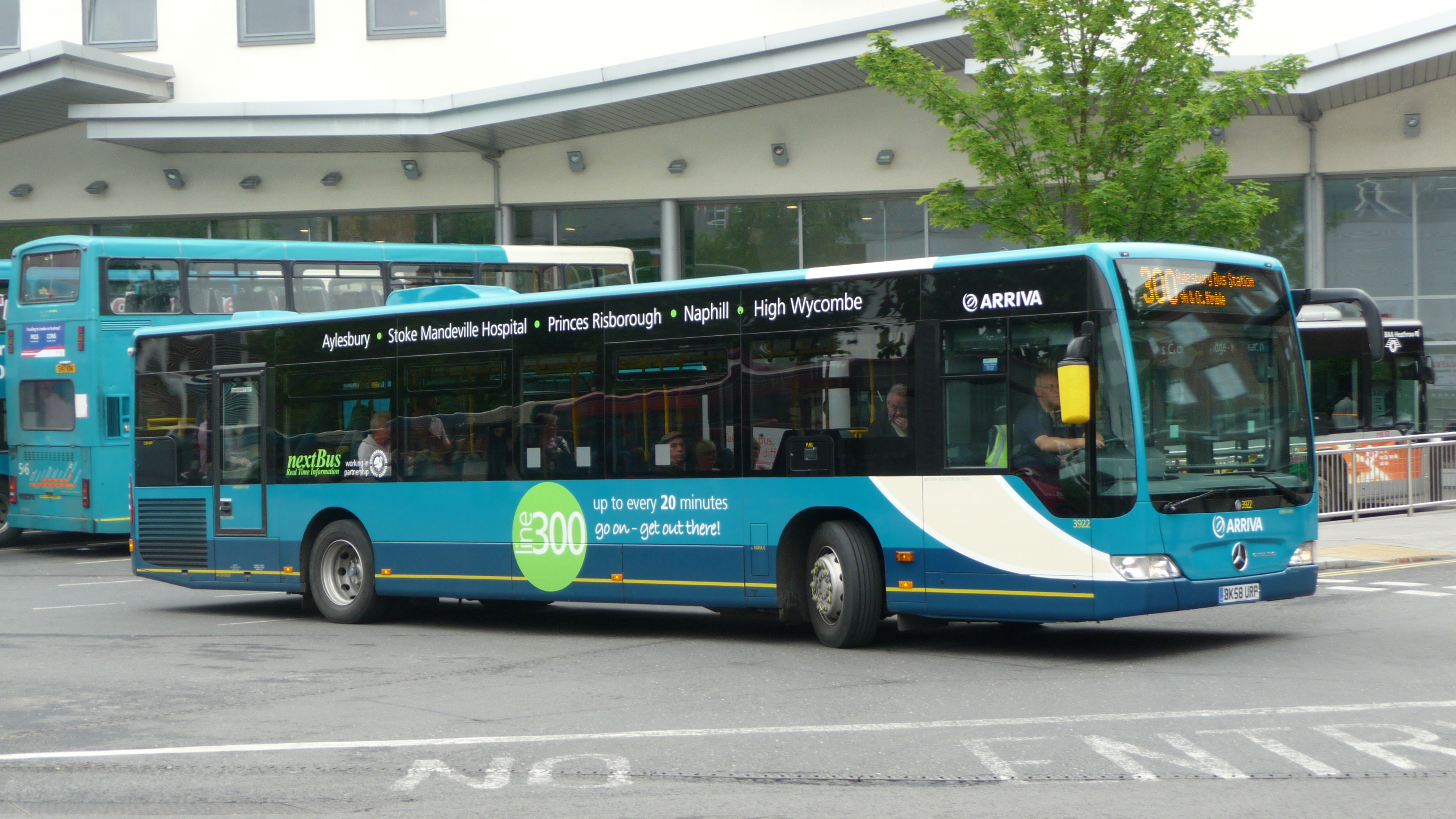 Arriva The Shires 3922 (BK58 URP), a Mercedes-Benz Citaro, leaving Eden bus station into Bridge Street, High Wycombe, Buckinghamshire, on route 300. Aylesbury depot operates route 300 into High Wycombe with a batch of these Citaros.